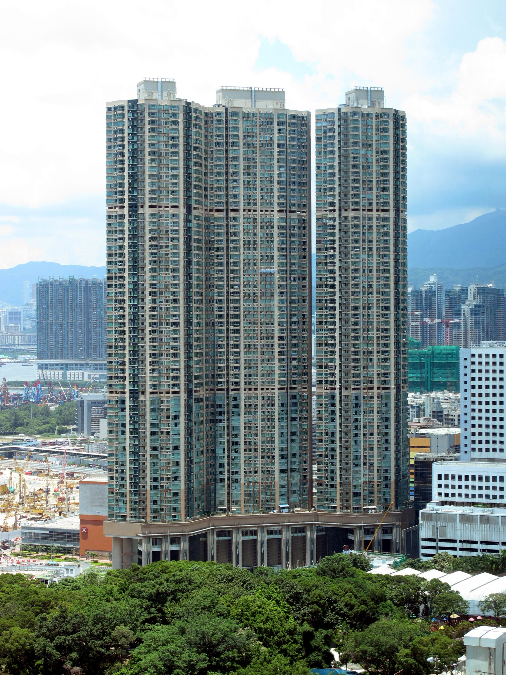 The Victoria Towers, Tsim Sha Tsui